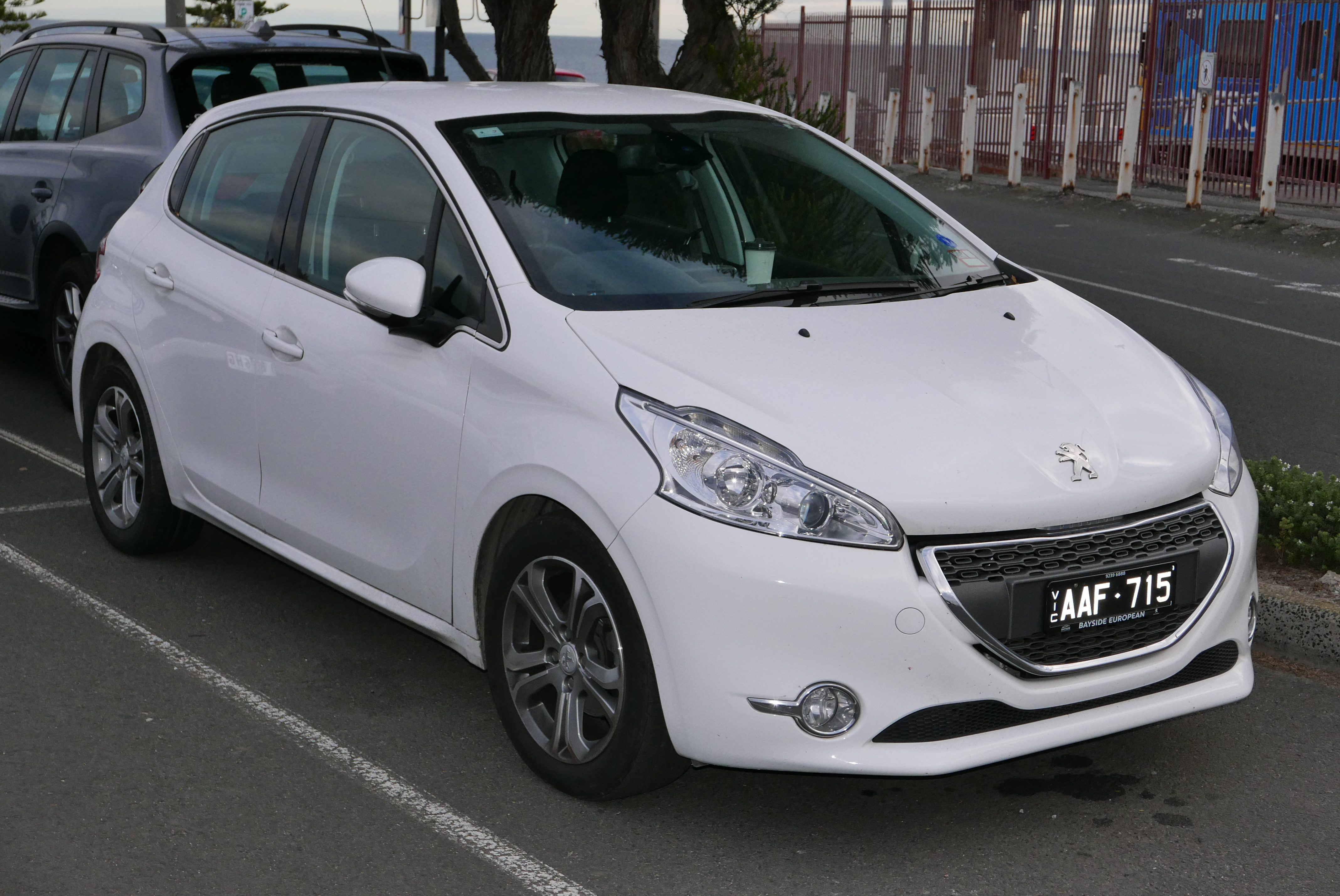 2012 Peugeot 208 (A9 MY12) Allure 5-door hatchback. Photographed in Brighton, Victoria, Australia. Vehicle registration enquiry results Jurisdiction Victoria Registration AAF715 Chassis code VF3CC5FS0CW087471 Engine code 10FHCA1591838 Compliance date 2012-10 Year of manufacture 2012